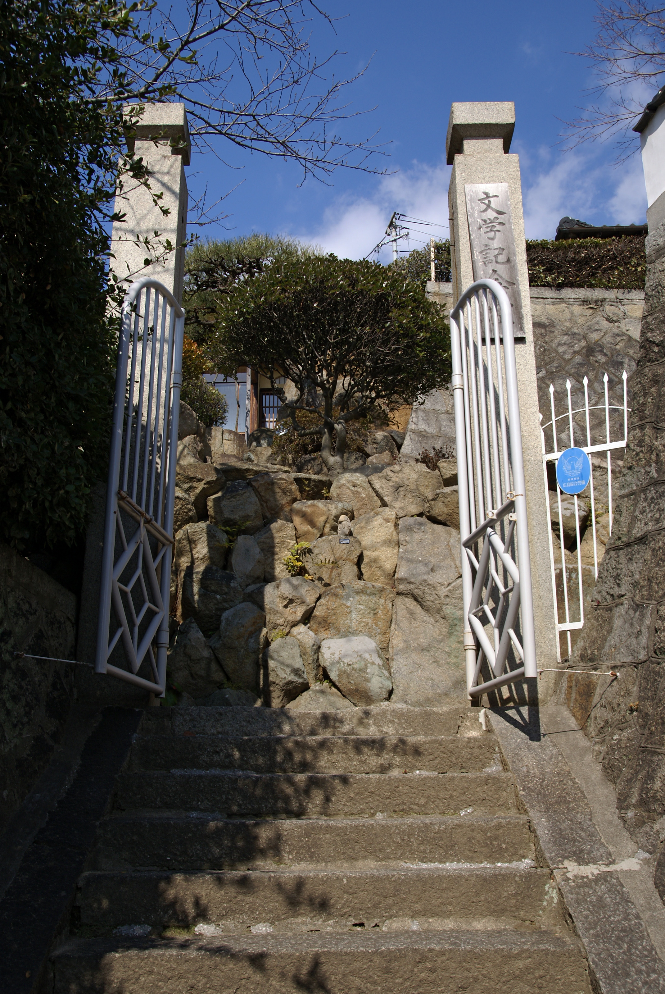 A Mansion of Literature Onomichi "Bungaku-kinenshitsu" in Onomichi, Hiroshima prefecture, Japan